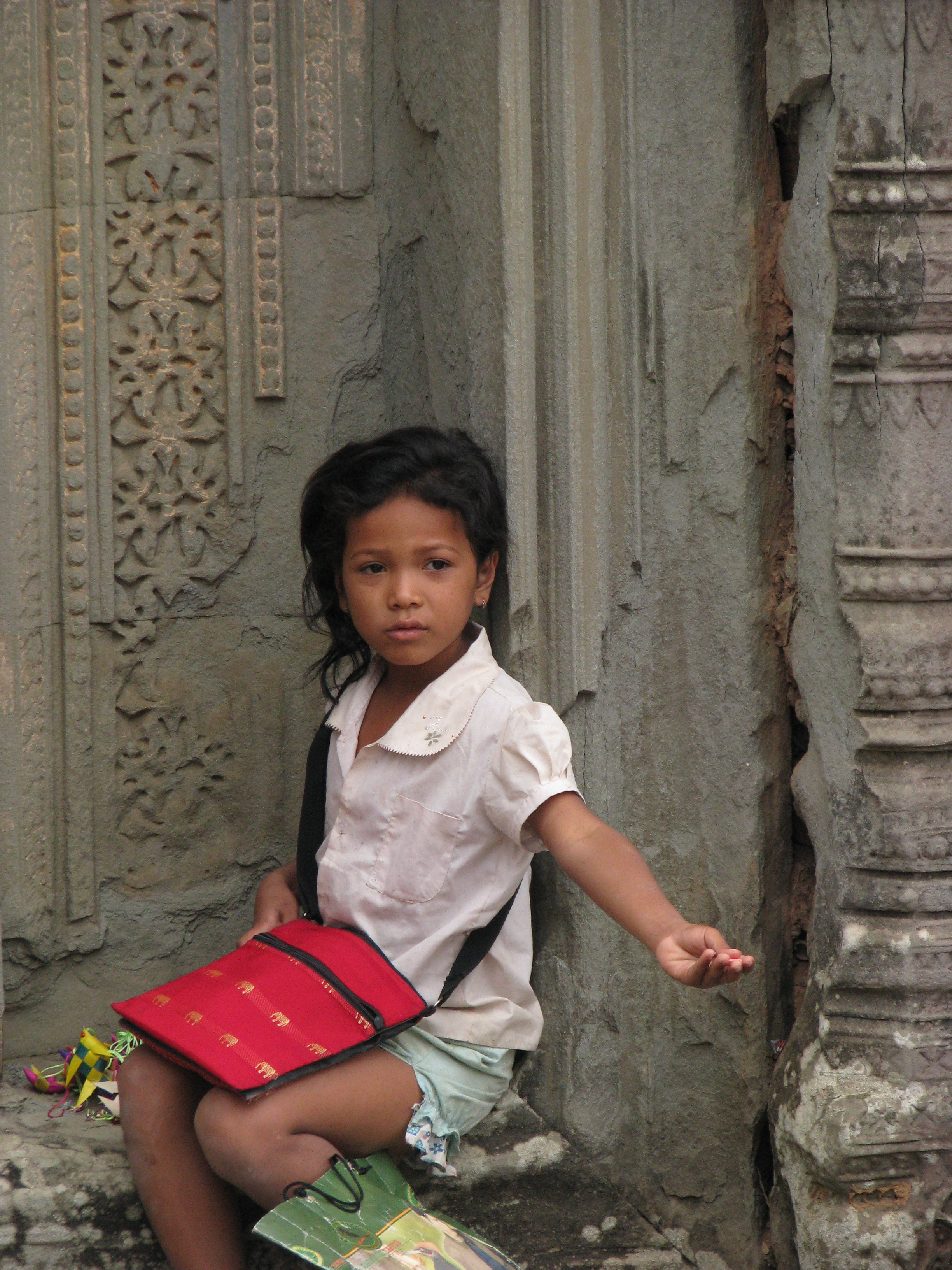 A beautiful young girl takes a break from selling trinkets in the doorways of Pre Rup, but doesn't miss the opportunity to hold her hand to a passing tourist. Cambodia, post war and genocide has far too many of these children without other opportunities. There are however at least in the towns a growing NGO community and volunteer opportunities to change that and provide the education these kids need to change their future. It is imspiring, but there is so much need.